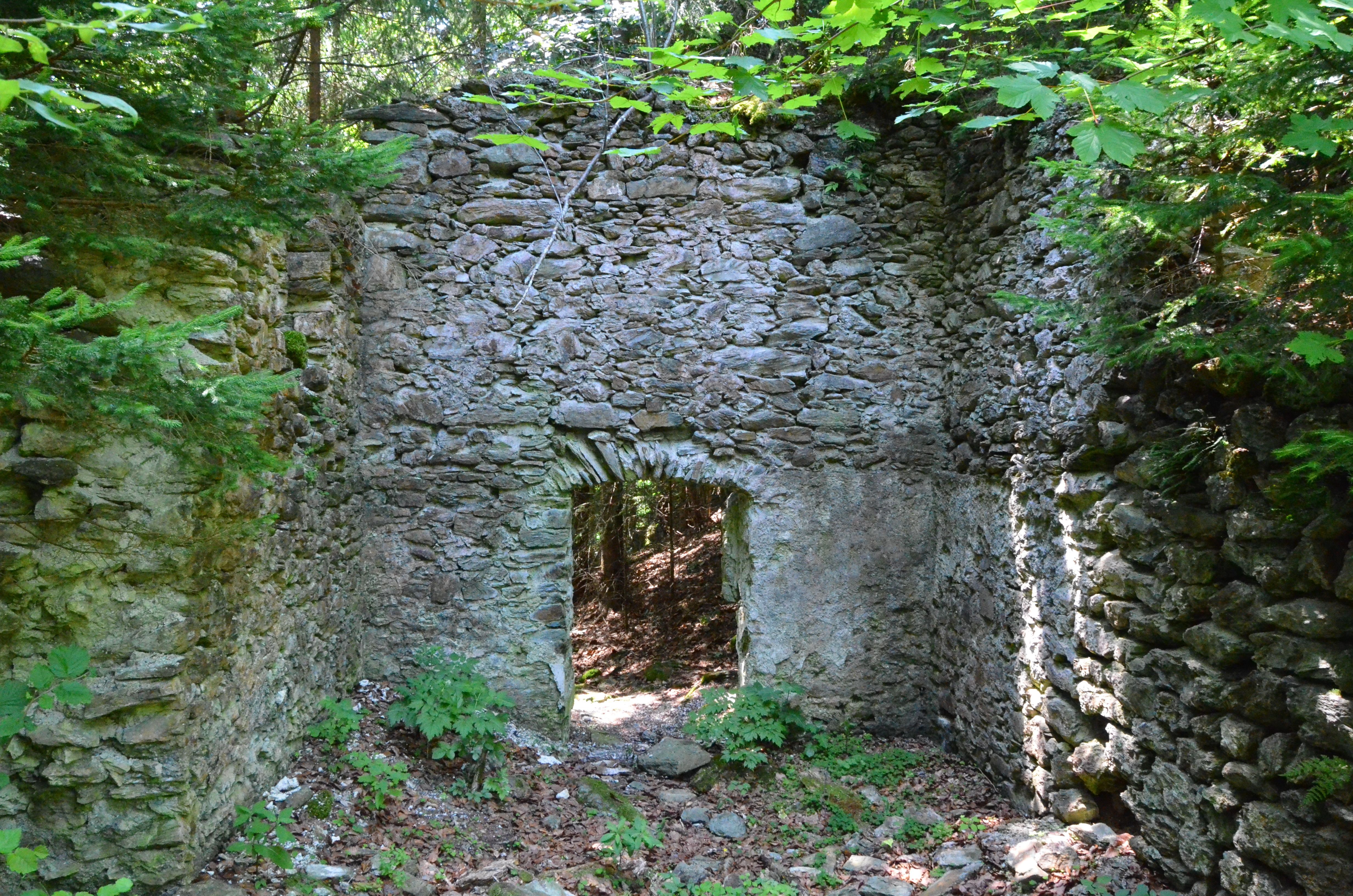 Castle ruin Old-Albeck at Sirnitz, municipality Albeck, district Feldkirchen, Carinthia / Austria / EU